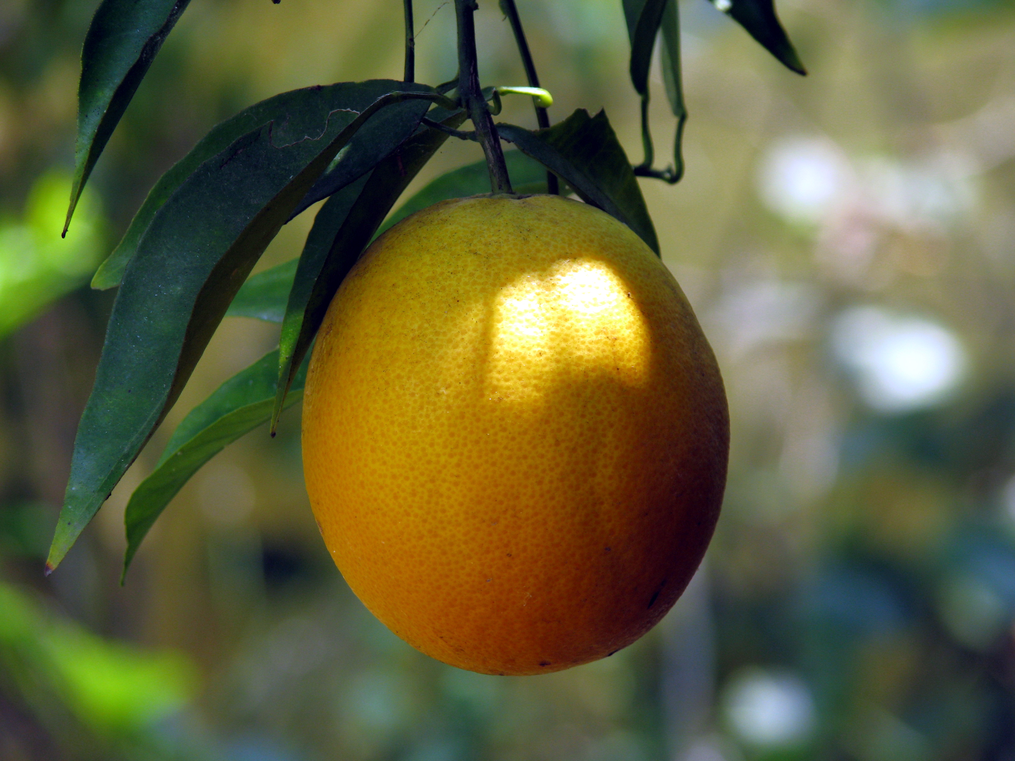 Picture of single orange (fruit) taken in user's backyard on July 11, 2008.